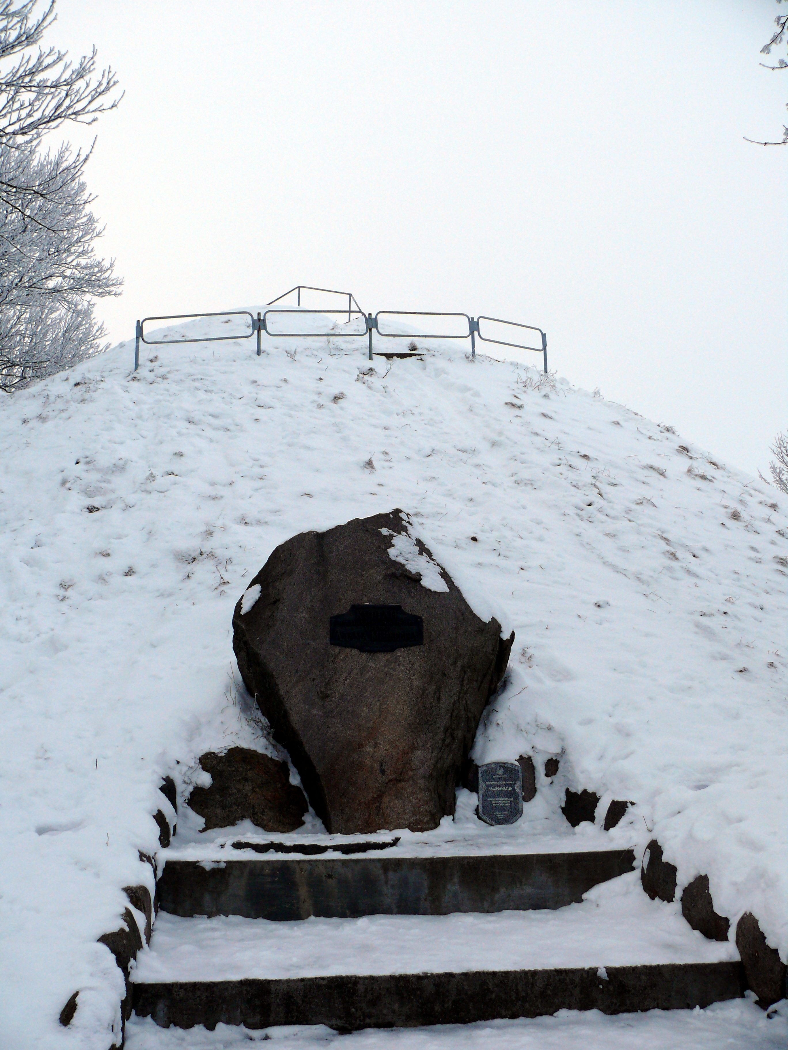 Mound of Immortality honouring Adam Mickiewicz's memory in Navahrudak, Belarus